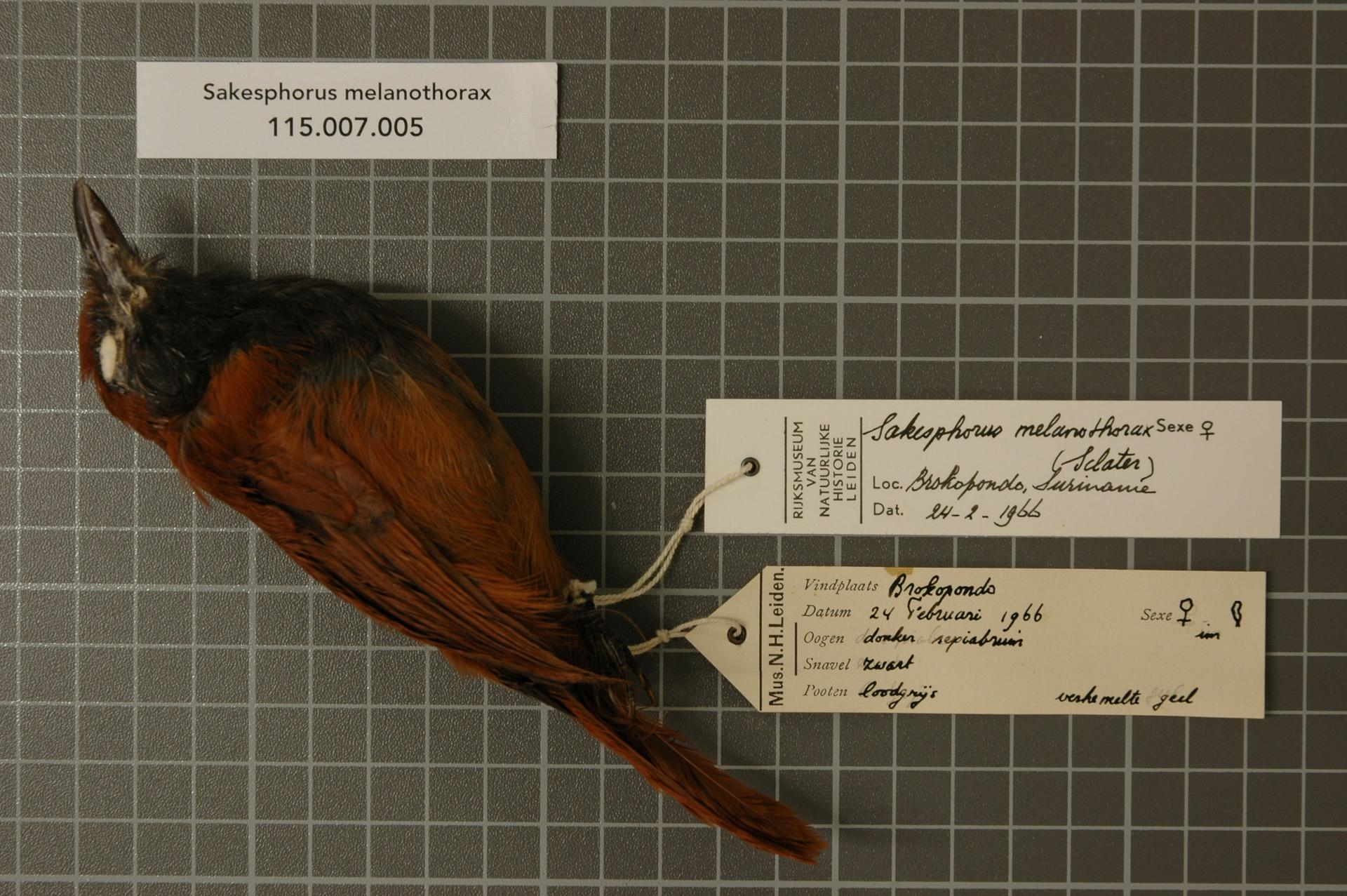 Sakesphorus melanothorax (Sclater, 1857)